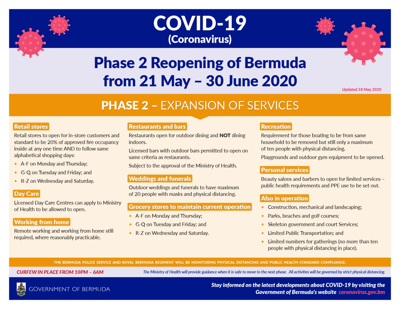 Item used for public health in the country of Bermuda during COVID-19